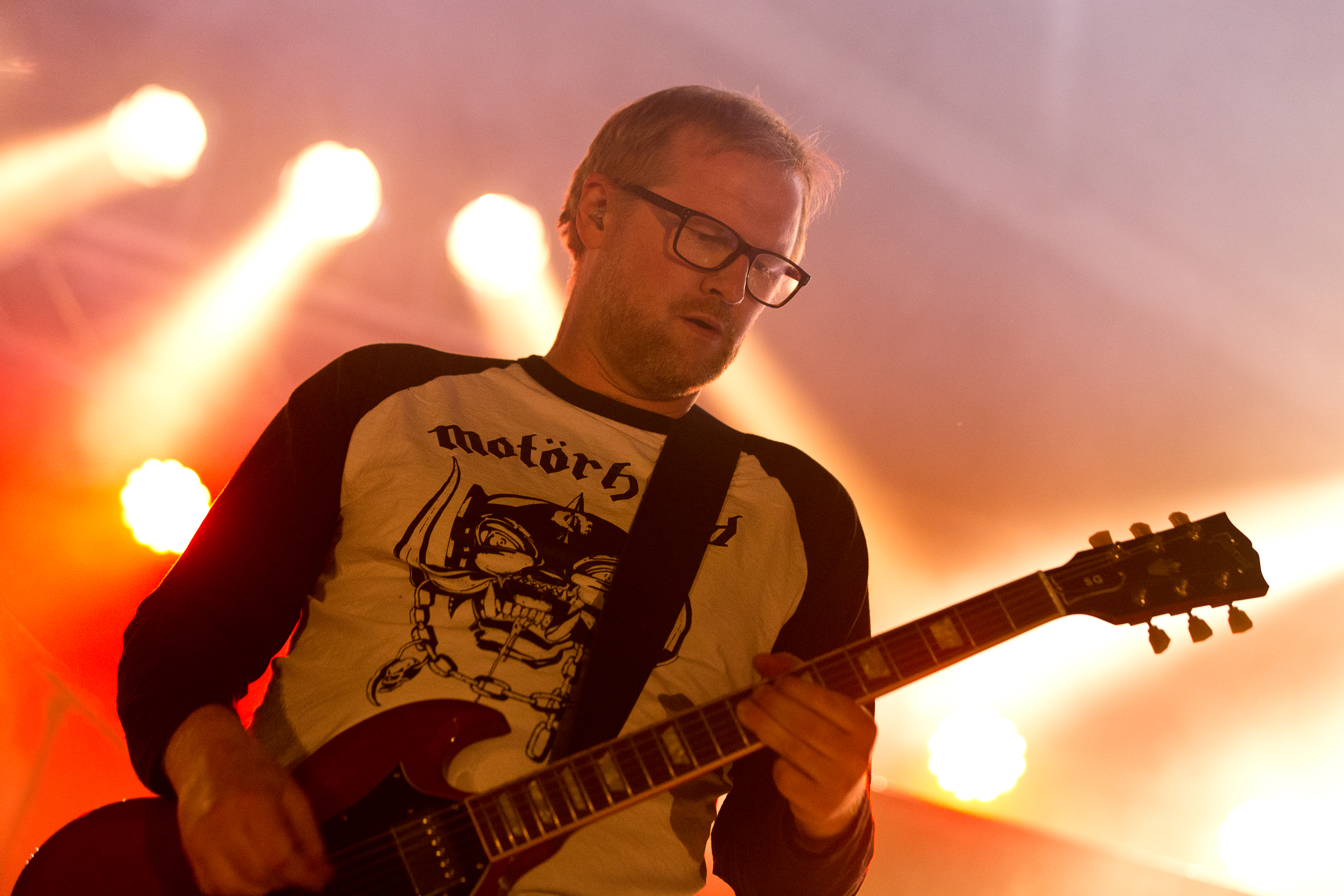 The Swedish death metal band Bombs of Hades at the Party.San Metal Open Air 2016 in Obermehler-Schlotheim/Germany